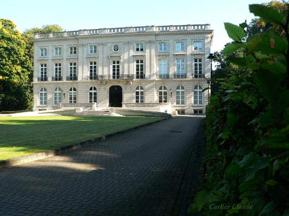 Chateau de la Solitude